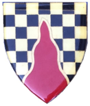 SADF SASOL Commando emblem